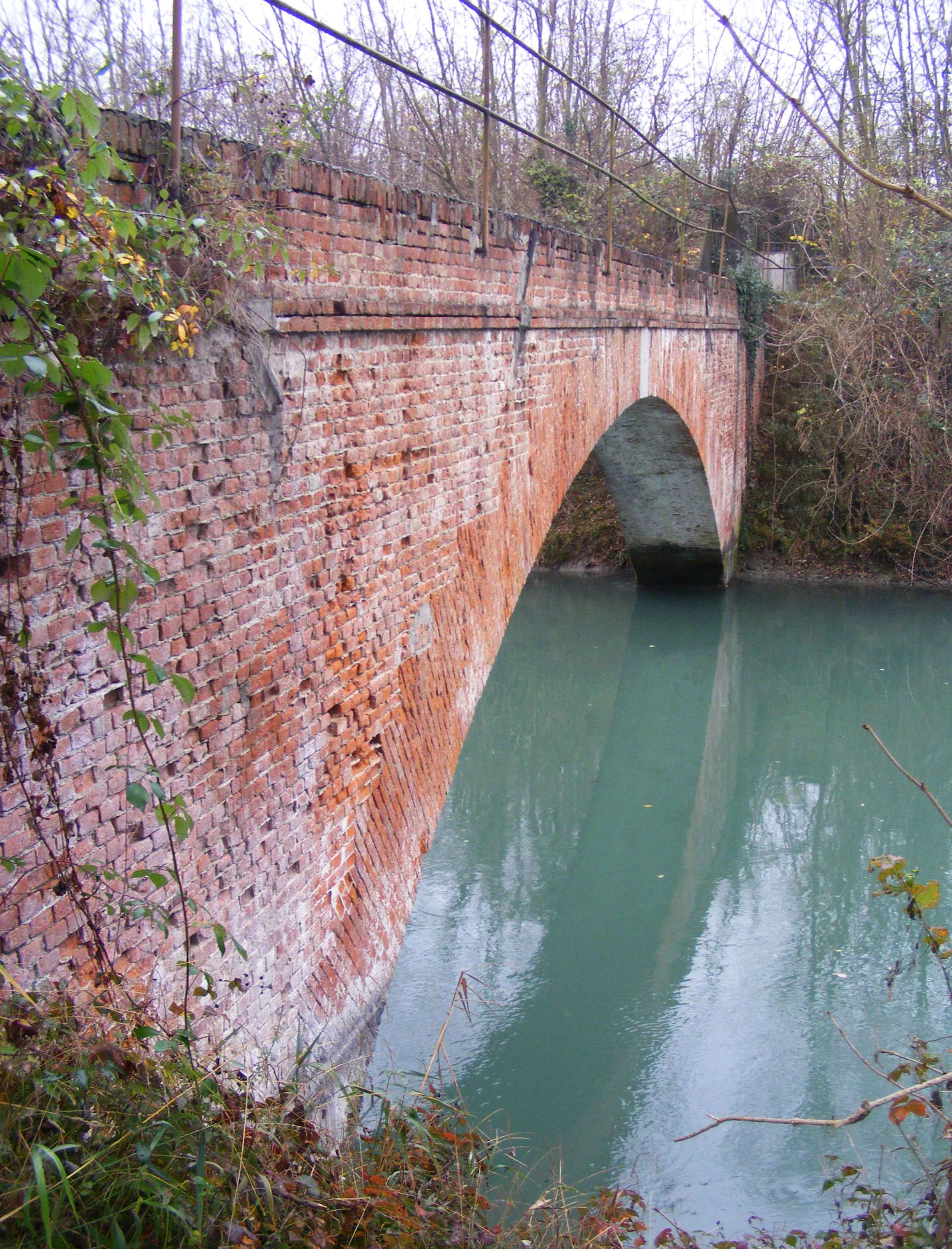 Depretis canal near Rocca di Villereggia (TO, Italy)